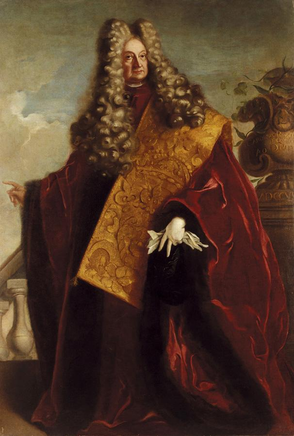 Portrait of Carlo Ruzzini (1653-1775), Venetian Diplomat, Statesman, Senator and Doge 1732-1735